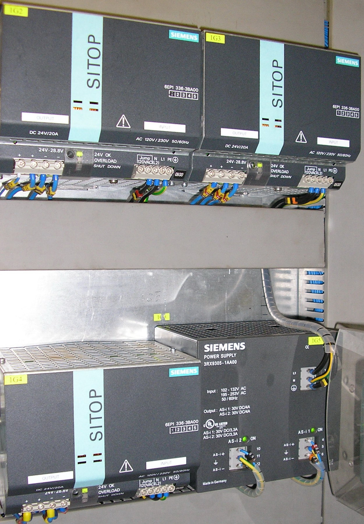 Power Supply SITOP Power (Siemens)